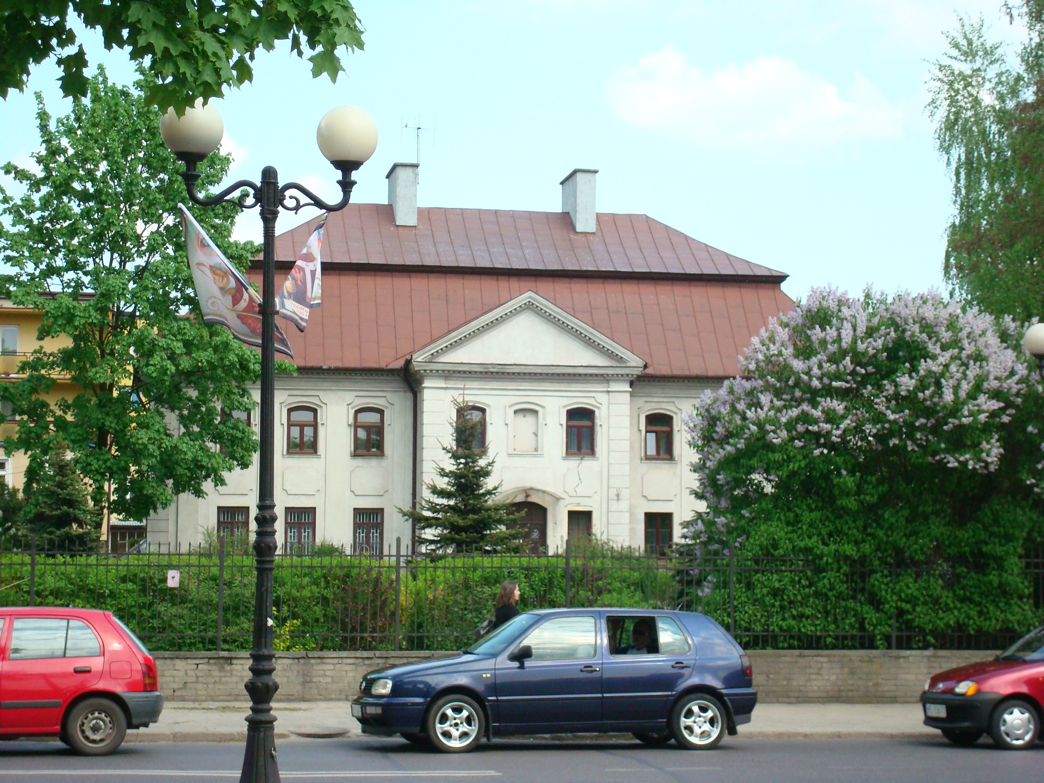 Presbytery of st. Stanislaus parish in Siedlce